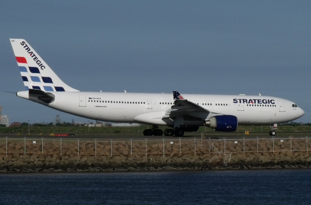 Strategic Air A330, now called Air Australia